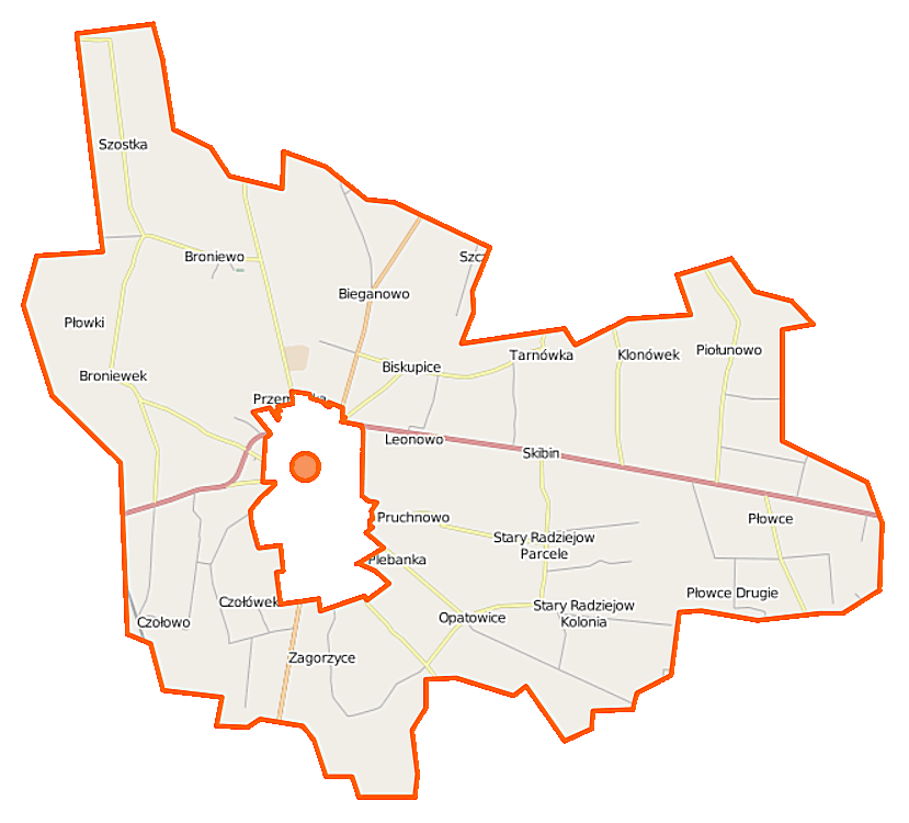 Map of Gmina Radziejów, Poland This map of Radziejów (gmina wiejska) was created from OpenStreetMap project data, collected by the community. This map may be incomplete, and may contain errors. Don't rely solely on it for navigation. Border coordinates52.695318.4509←↕→18.679252.5701